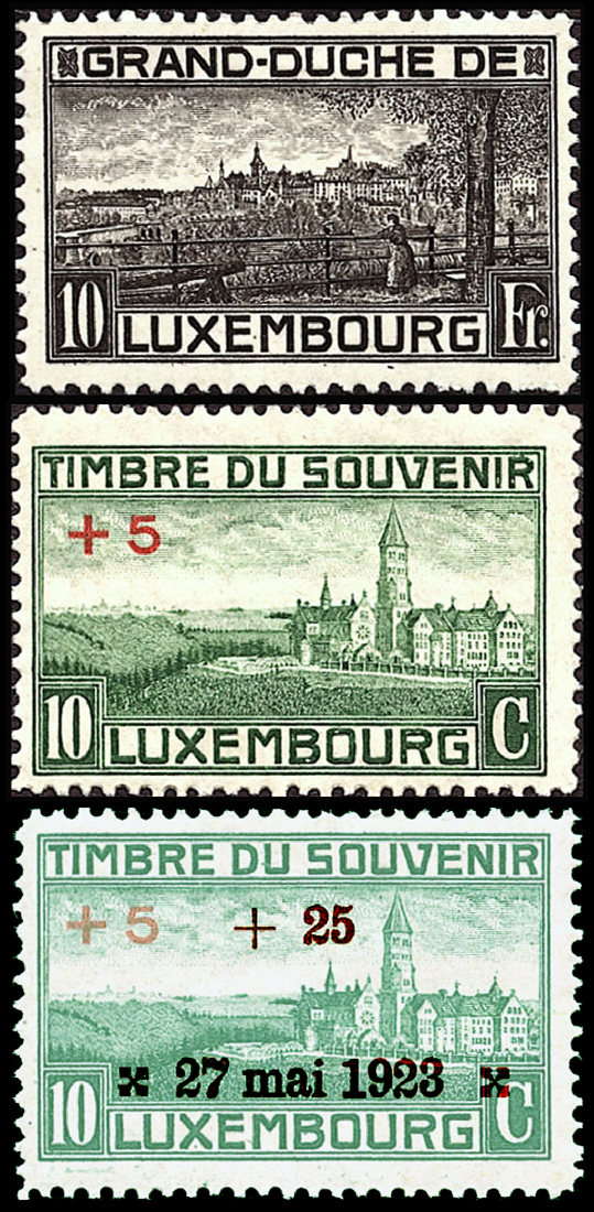 Postage stamps of Luxembourg with surcharging overprints due to WWI victims: 1923, Scott #151; 1921, #B1; 1923, B4).